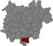 Location of Castellbell i el Vilar in Bages